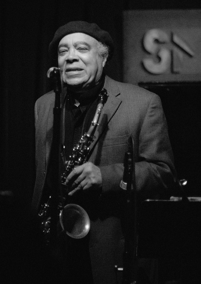 James Spaulding in February, 2006